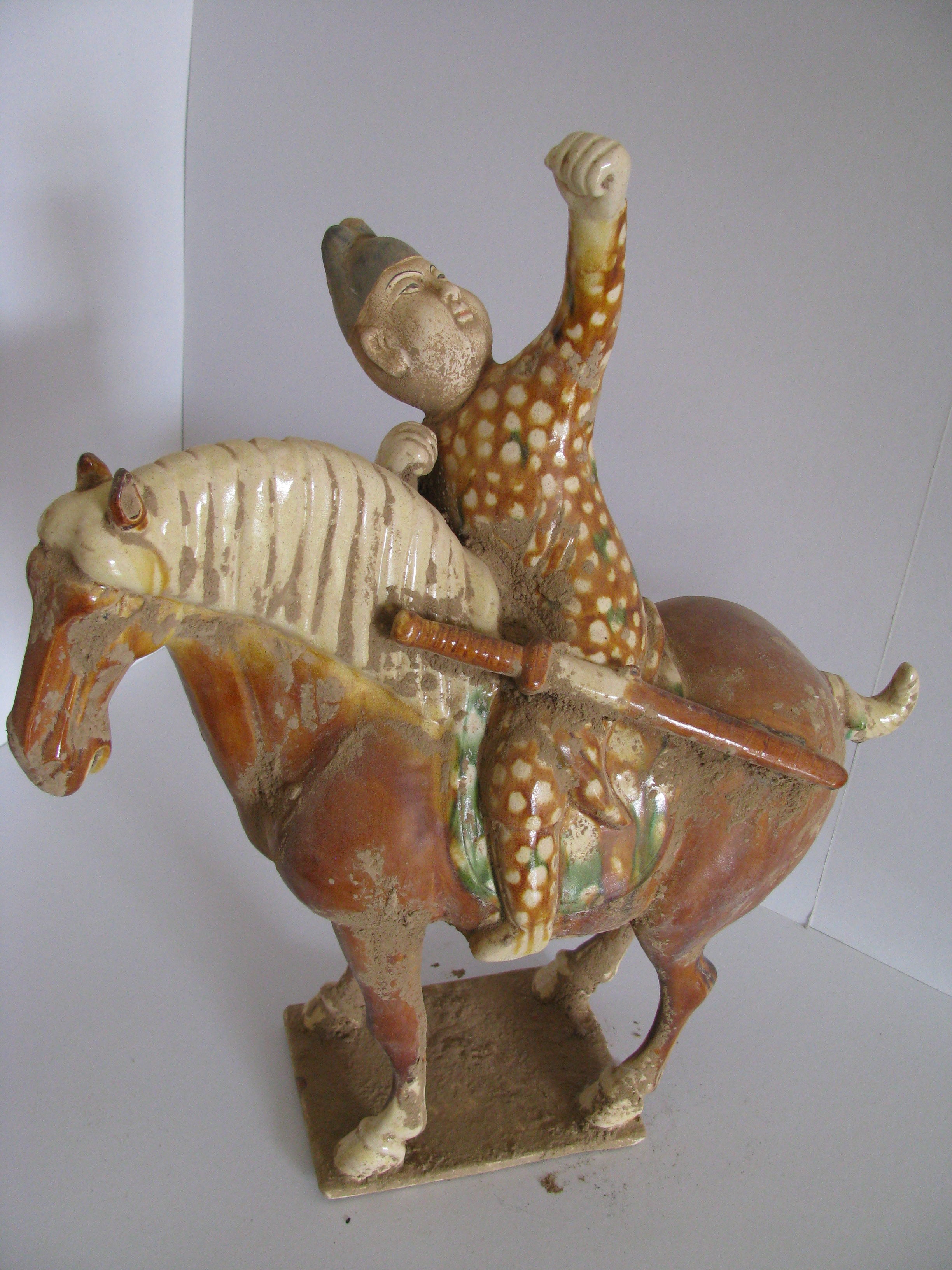 Tang Dynasty figure.